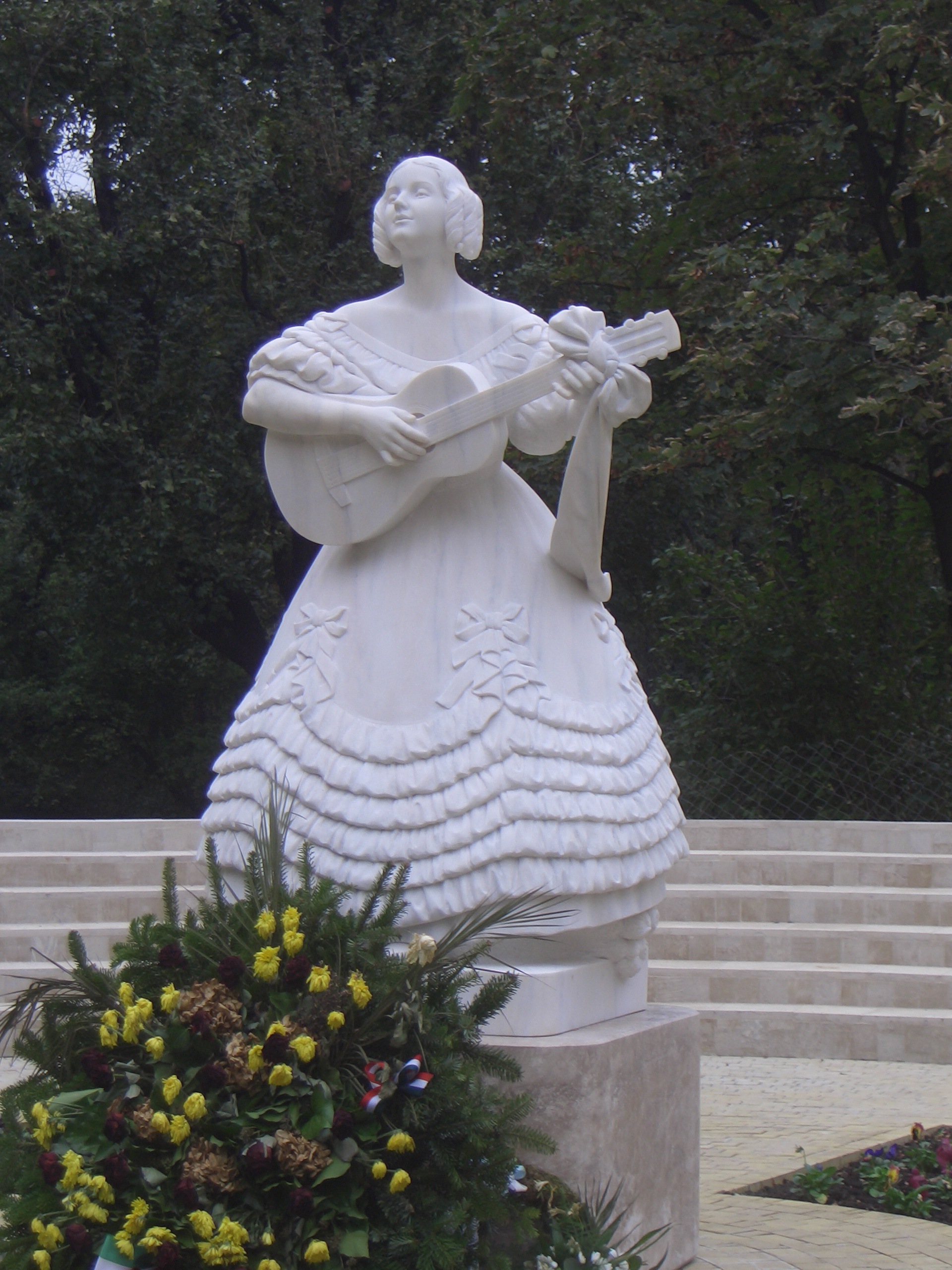 Sculpture of actress Category:Róza Déryné Széppataki, in Budapest, in Horváth-Park. Copy of original artwork of Miklós Ligeti erected in 1935. The present sculpture has been made by Botond Polgár, unveiled on 22. September 22nd, 2010, 1 week before municipal elections.